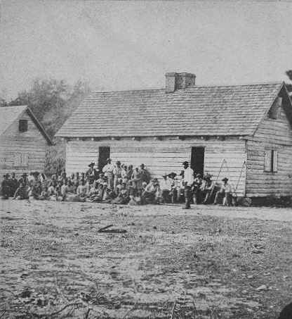 Slave quarters Smith's plantation, Port Royal. [Stereograph] Example Credit Line: Civil War Treasures from the New-York Historical Society, [Digital ID, e.g., nhnycw/ad ad04004]